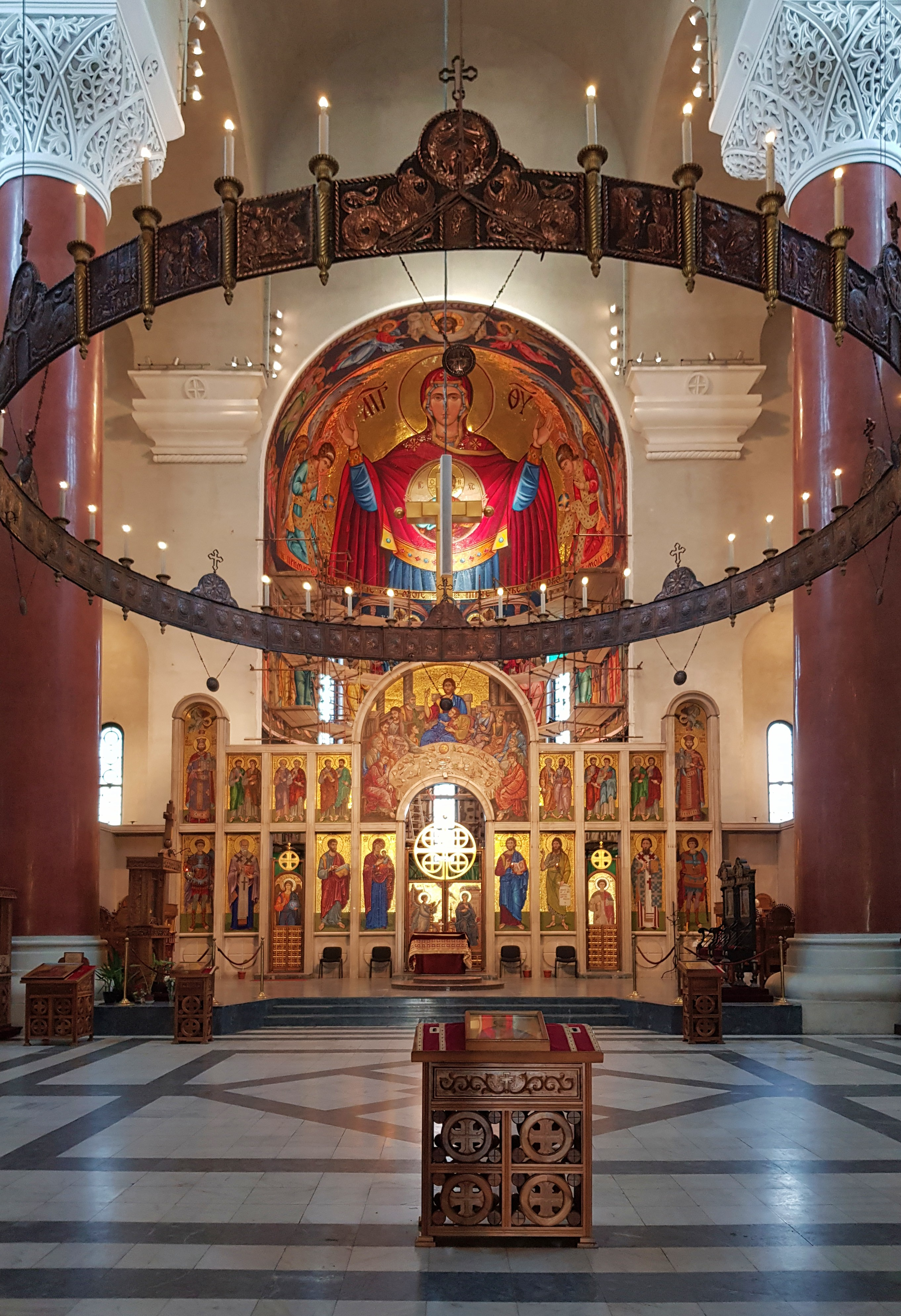 Saint Mark church